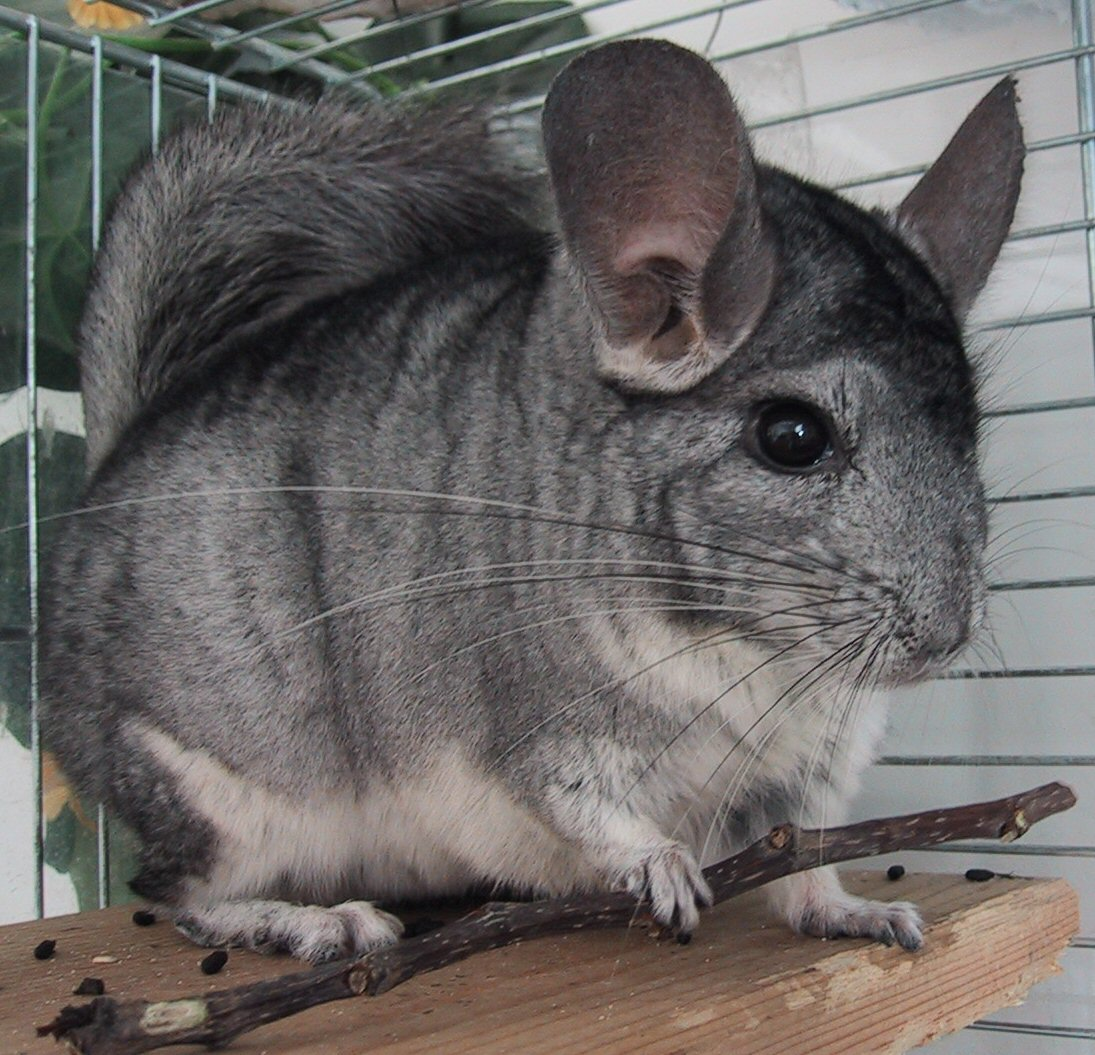 Chinchilla laniger x Chinchilla brevicaudata, Domestic Chinchillas love chewing pear tree or apple tree branches. They eat buds first, using their higher limbs as little hands. Notice the aspect of dungs. Male, about 5 years old.